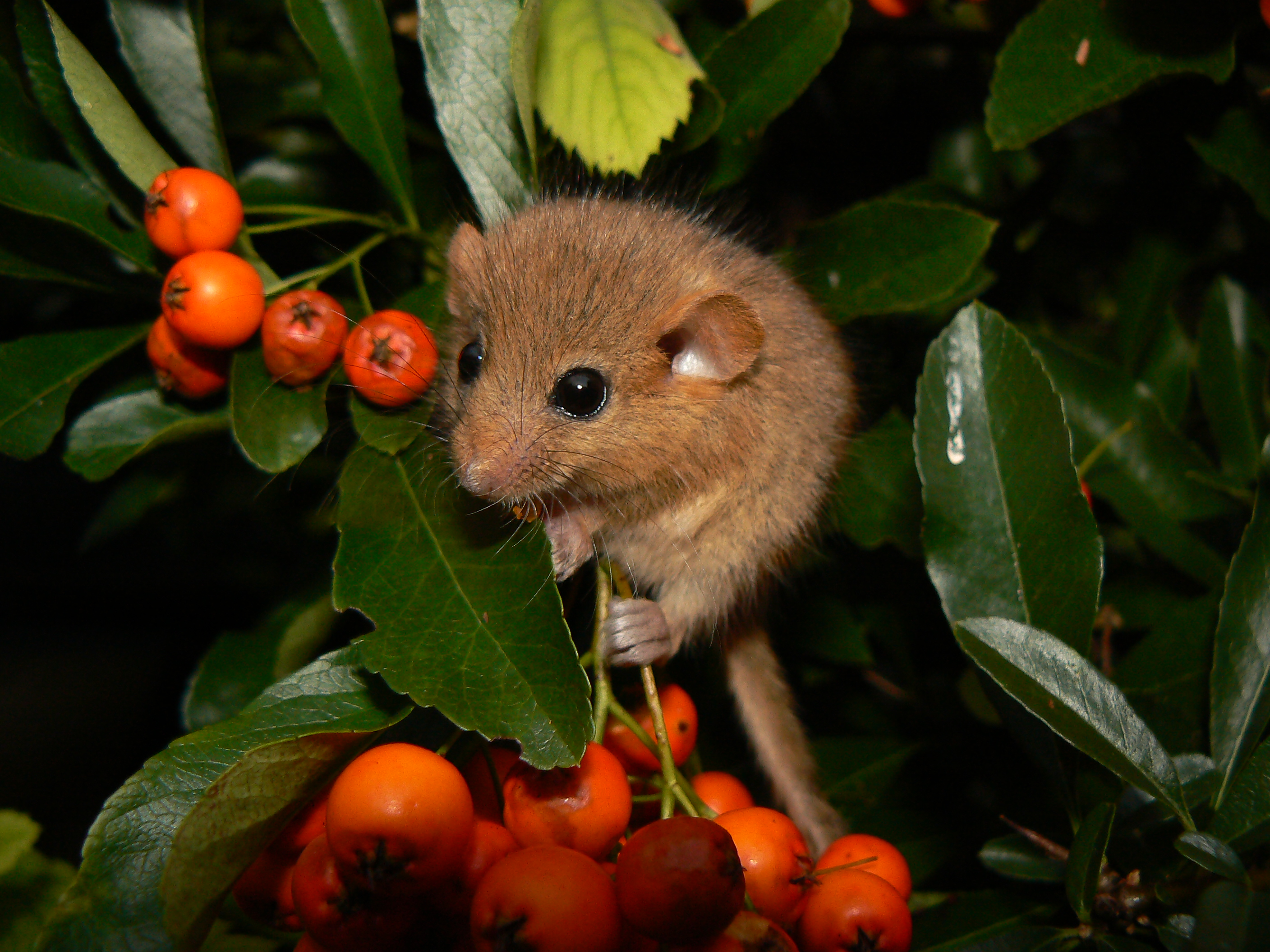 Hazel dormouse (Muscardinus avellanarius) on a Firethorn (Pyracantha coccinea)